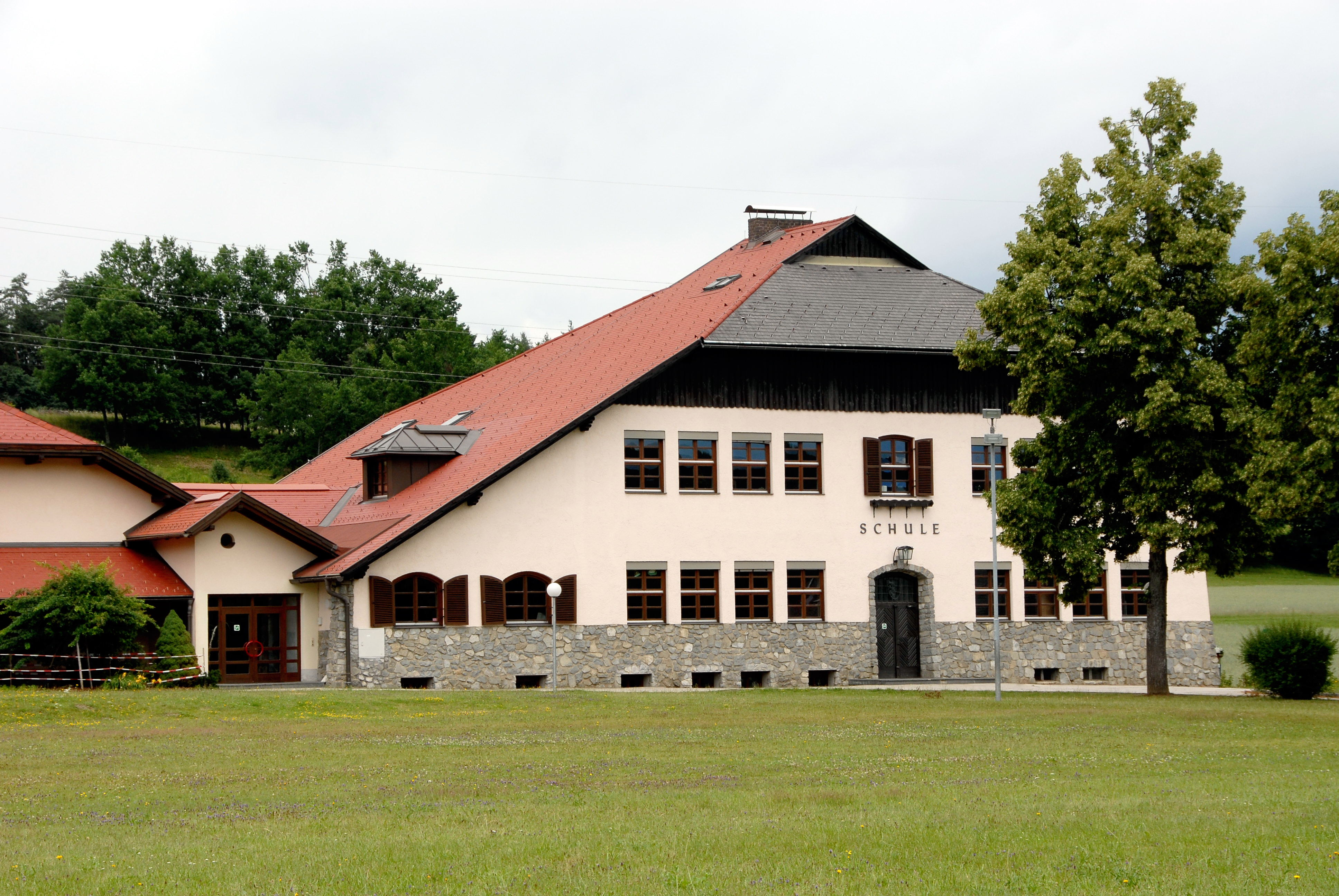 School at Keutschach, district Klagenfurt-Land, Carinthia, Austria